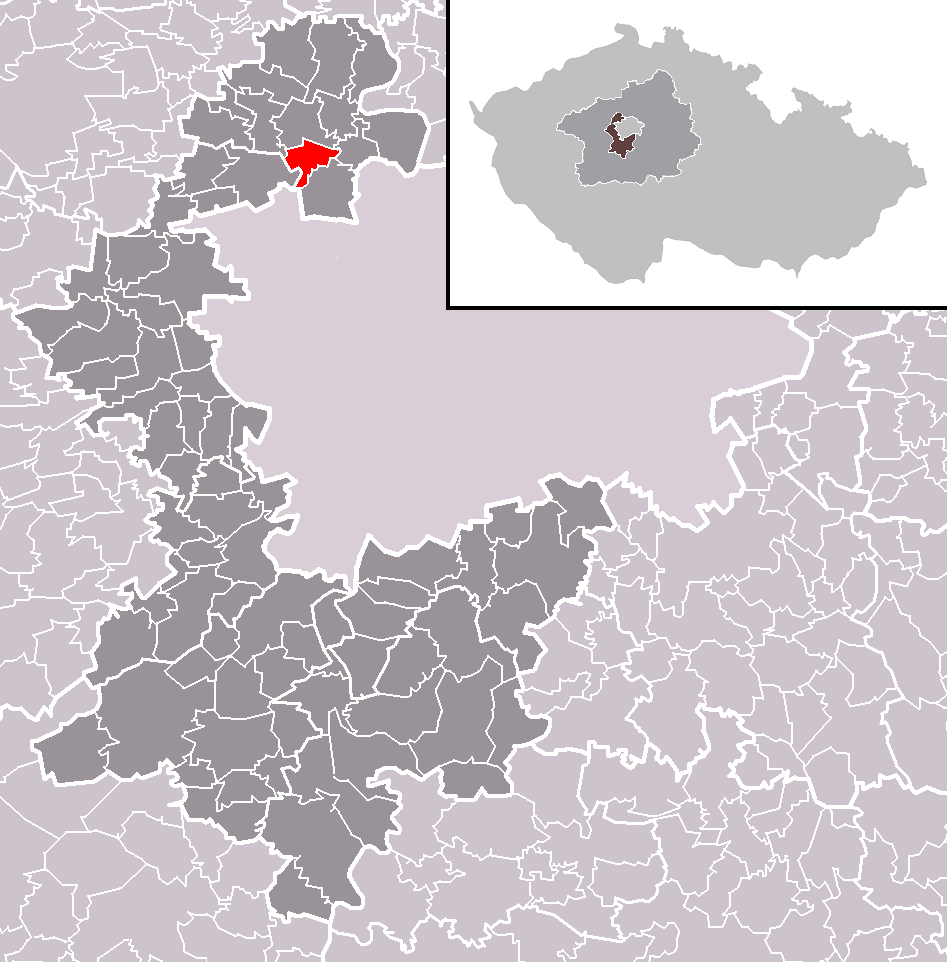 Location of Statenice municipality within Prague-West District and administrative area of Černošice as a Municipality with Extended Competence.